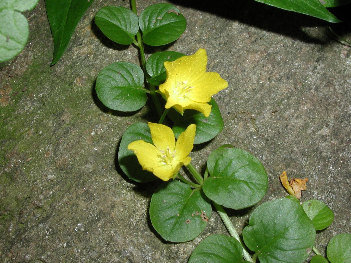 Lysimachia nummularia L.- creeping yellow loosestrife, creeping Jenney - United States